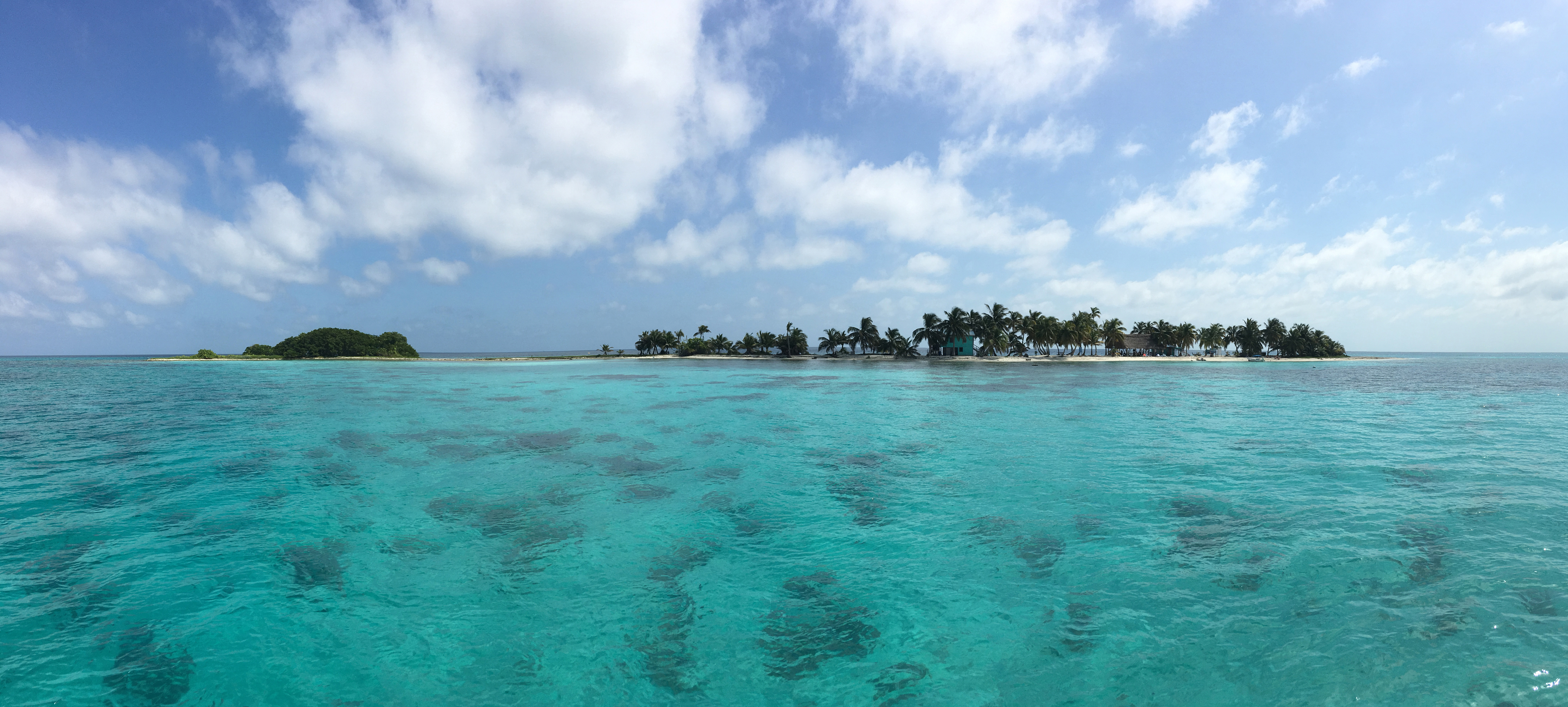 A panoramic photograph of Laughing Bird Caye in Belize, photographed from the west